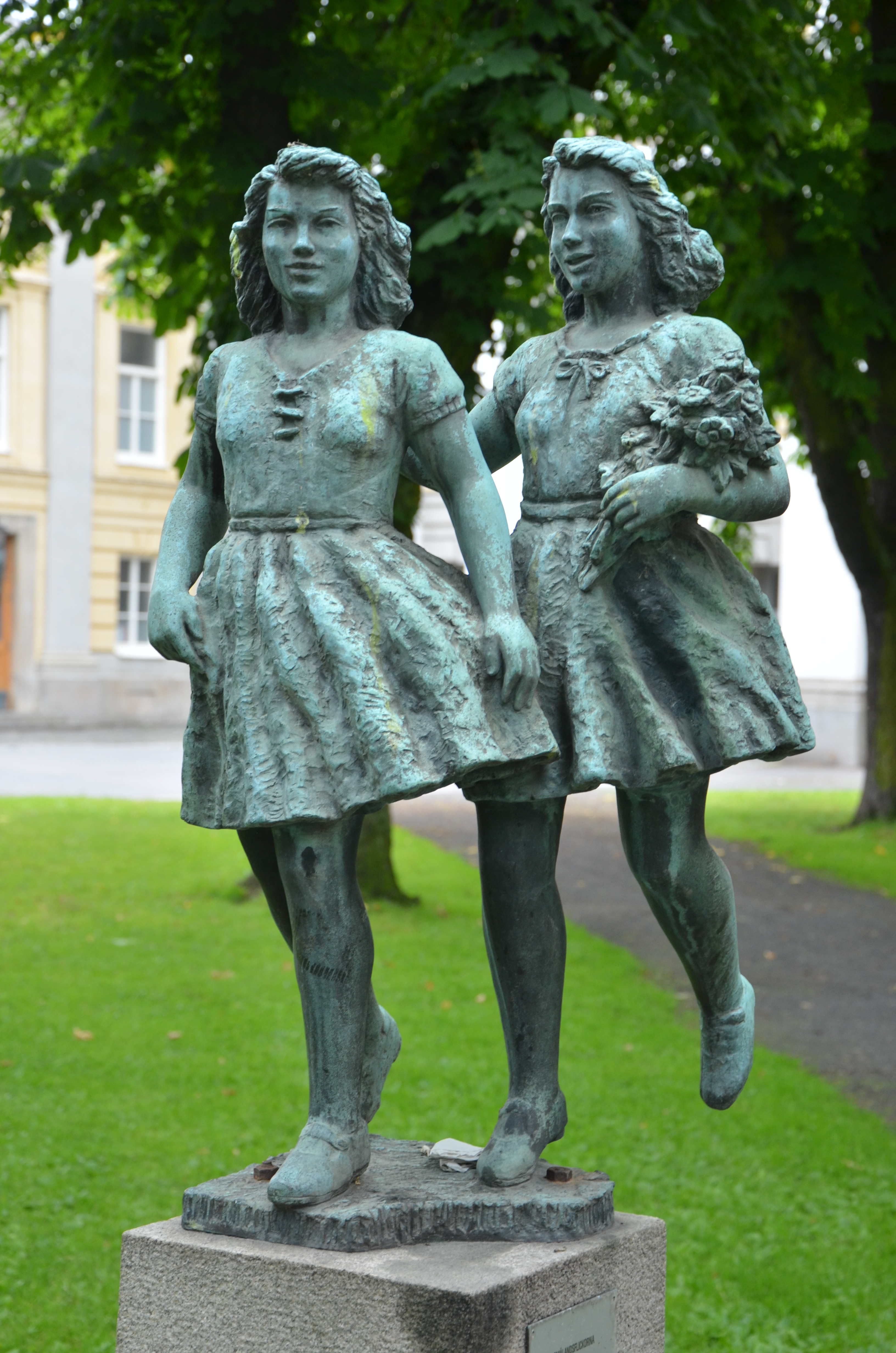 Torwald Alefs Smålandsflickorna, 1951, brons, Braheparken i Jönkping